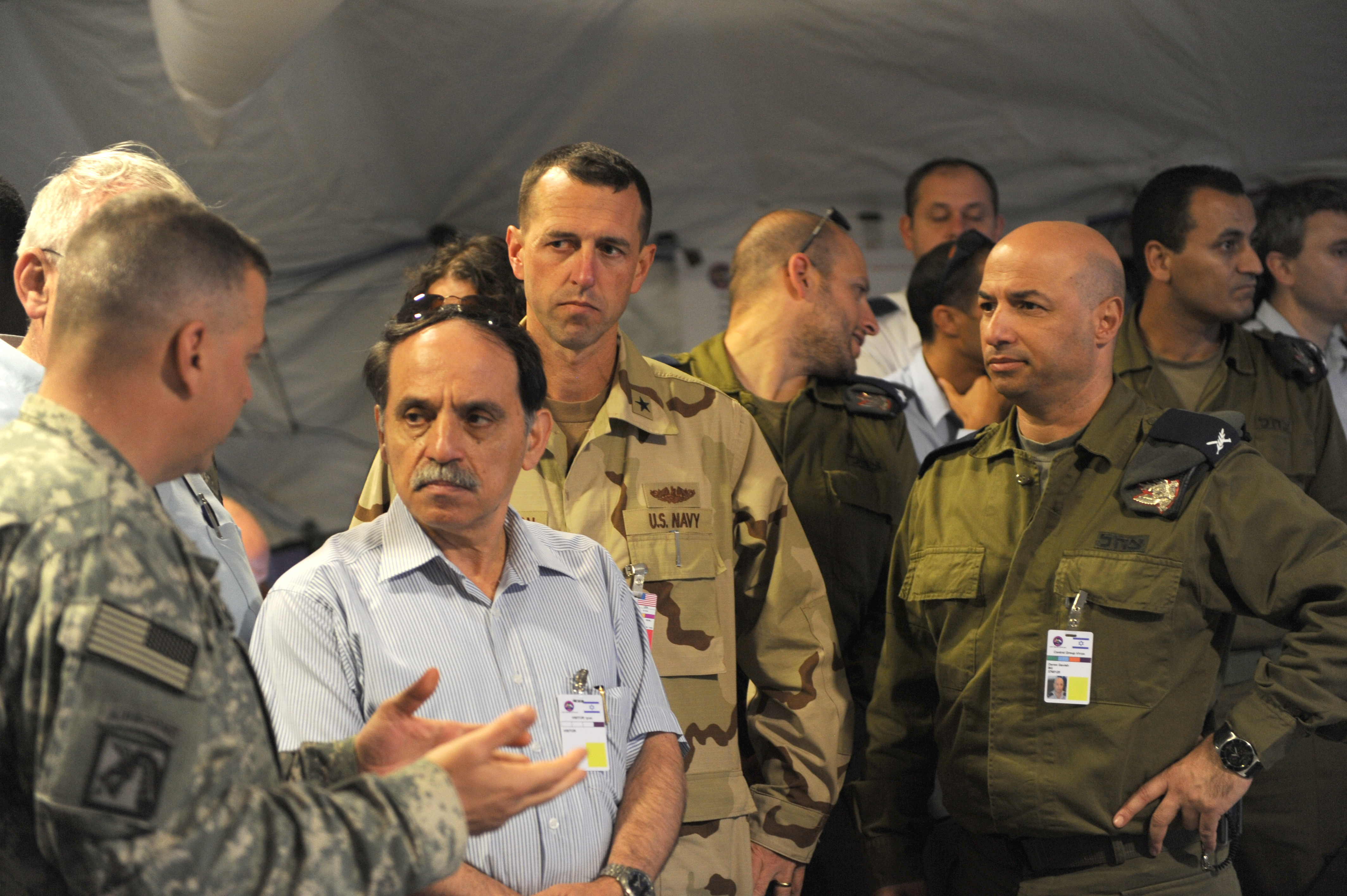 U.S. Navy Rear-Admiral John M. Richardson visits Camp Cobra, Israel, with members of IDF leaders on 1 November, 2009. The Rear-Admiral's tour is part of the management of the training operations and drills during Juniper Cobra 2010.